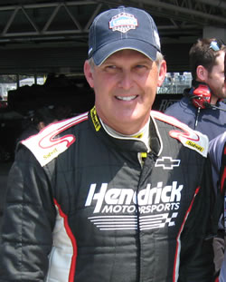 David Green posing with a fan at the 2008 NASCAR Nationwide Series event at Mexico City, after finishing his qualifying run in which he filled-in for Adrian Fernandez.